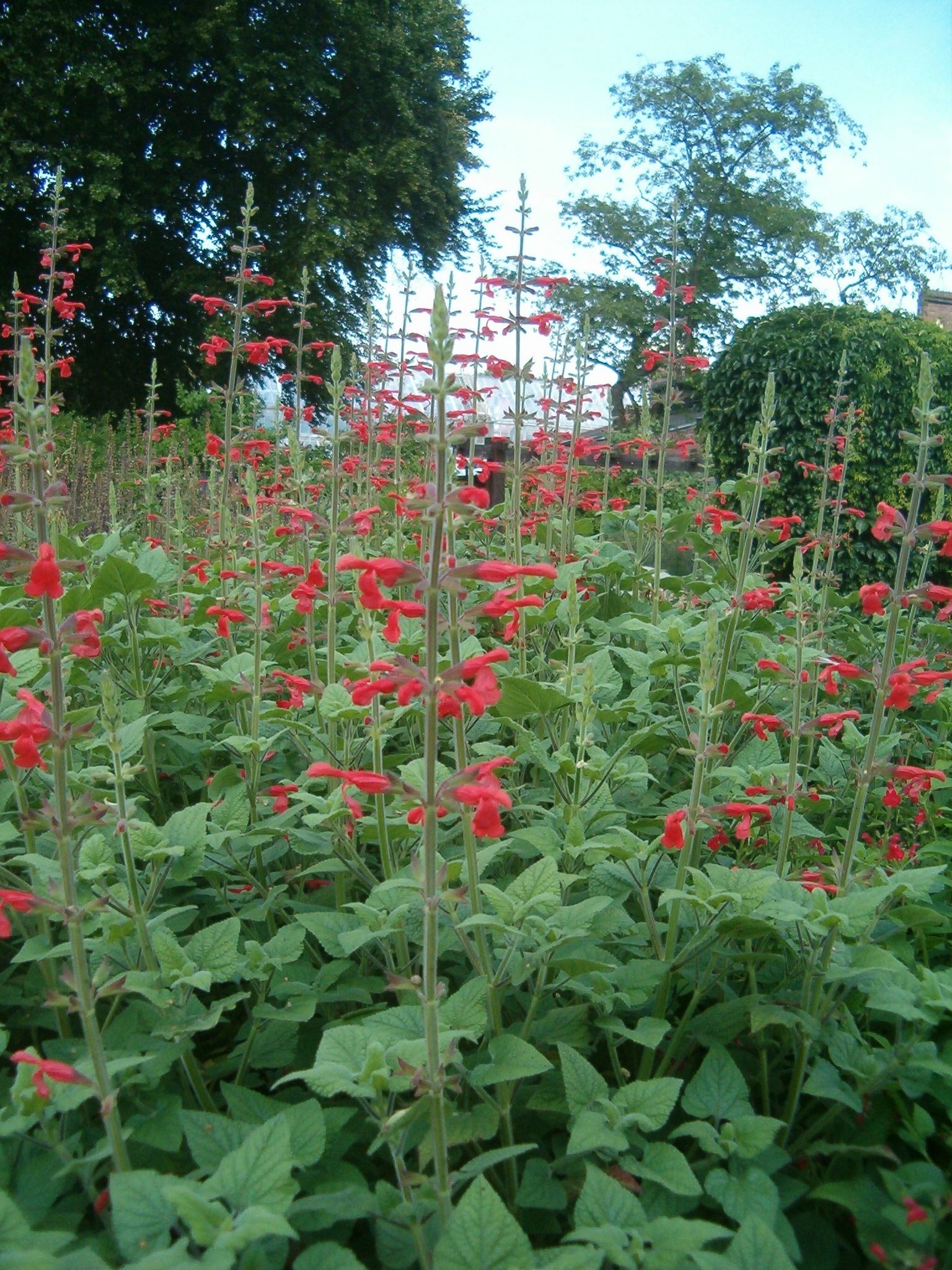 At Botanical Gardens Berlin-Dahlem Species Salvia darcyi